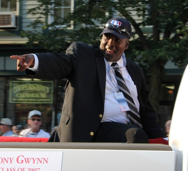 Tony Gwynn at the 2011 Baseball Hall of Fame induction parade.